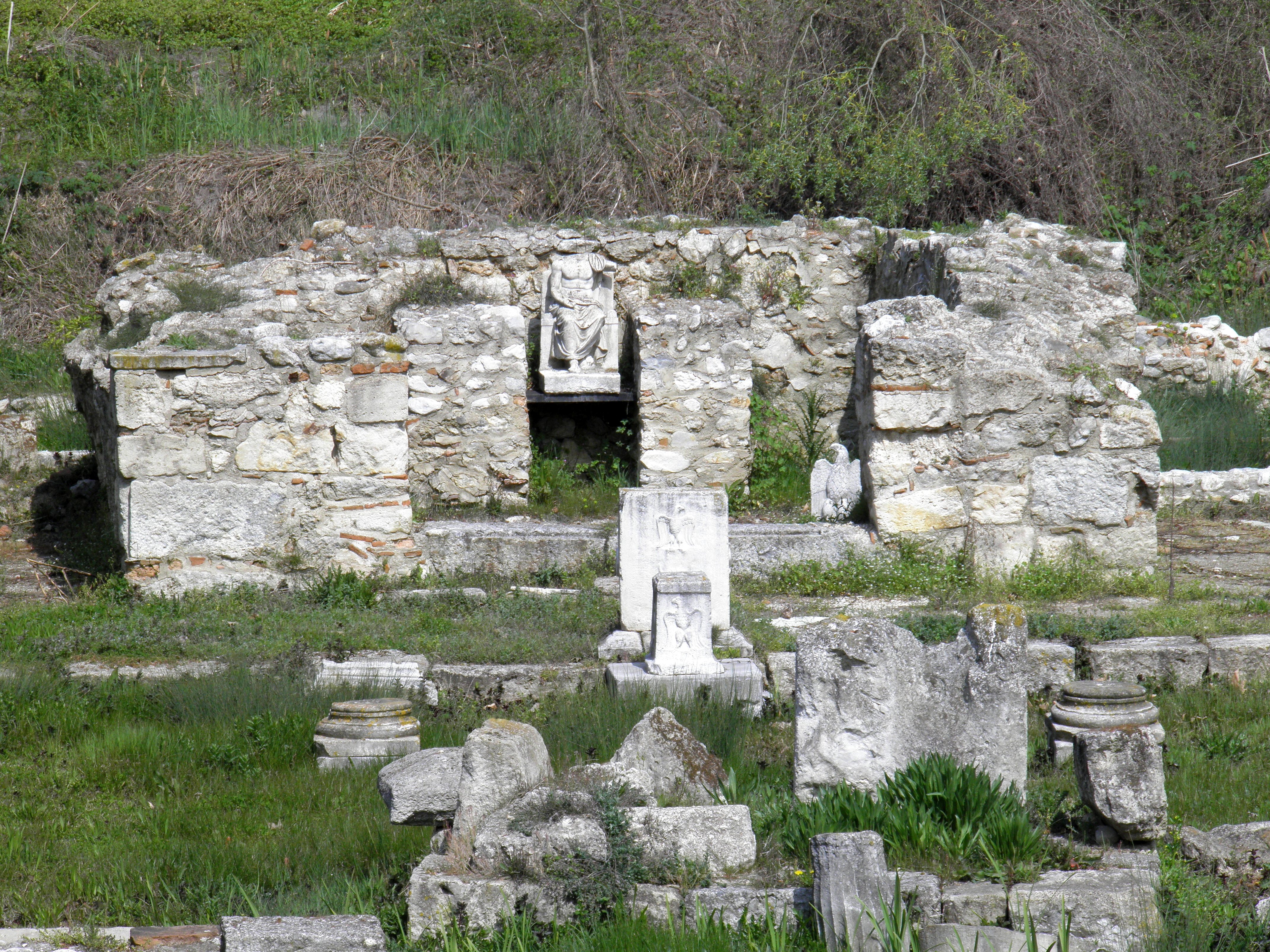 A sacred way, lined with columns topped by marble eagles, led to the sanctuary of Zeus Hypsistos, Dominating the middle of the spacious square of the precinct (temenos) is the temple, which was surrounded by stoas with rooms for the needs of the sanctuary. In front of the temple are the altar and the stone block at which the animalsfor sacrifice were tied. The temple of Zeus Hypsistos comprises of one hall (cella) surrounded by flank columns (pteron). On the floor are mosaic representations of: a white bull and a double axe, in the pteron, and panels with depictions of crows, in the cella. On the north wall of the cella is the built base of the cult statue, which was found fallen beside it. A marble eagle with oustretched wings and head turned towards the god was placed inside the temple. The statue of Zeus Hypsistos, a well-sculptured work of Imperial times, has survived almost intact. The god is represented seated on a throne, crowned with a pediment. In his right hand he holds the thunderbolt, while in the raised left he held the scepter. The iconographic type of the statue harks back to the famous gold and ivory statue by Pheidias, which stoot in the sanctuary of Olympia. In all probability, a statue of Hera found built into the north wall of the fortification, stood on the same pedestral as the statue of Zeus. Among the finds from the excavations are the characteristic votive offerings associated with the cult of Zeus Hypsisos, marble eagles of Hellenistic and Roman times and inscriptions that give significant information on the rites and the sacred association of devotees of the god.